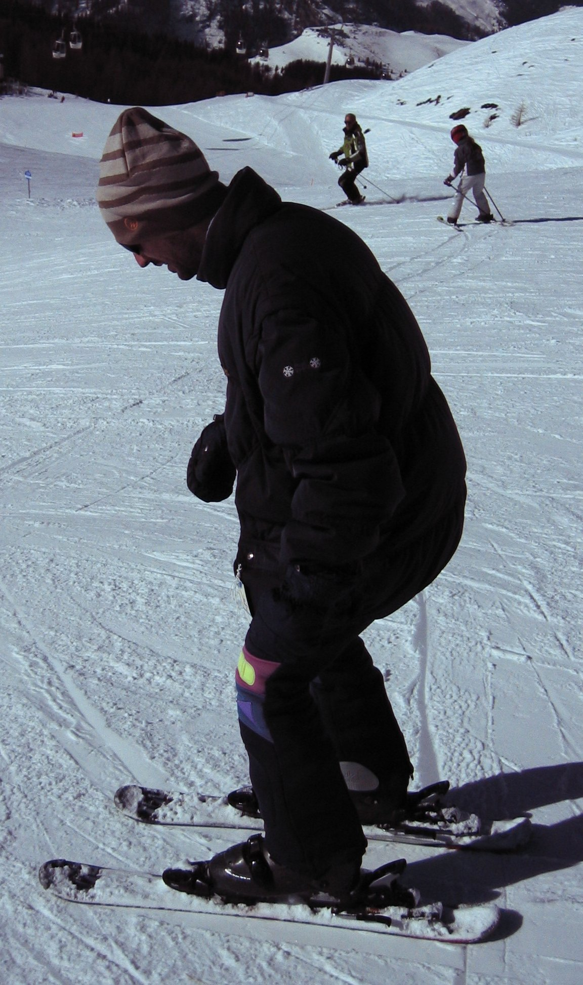 a skier going on snowblades